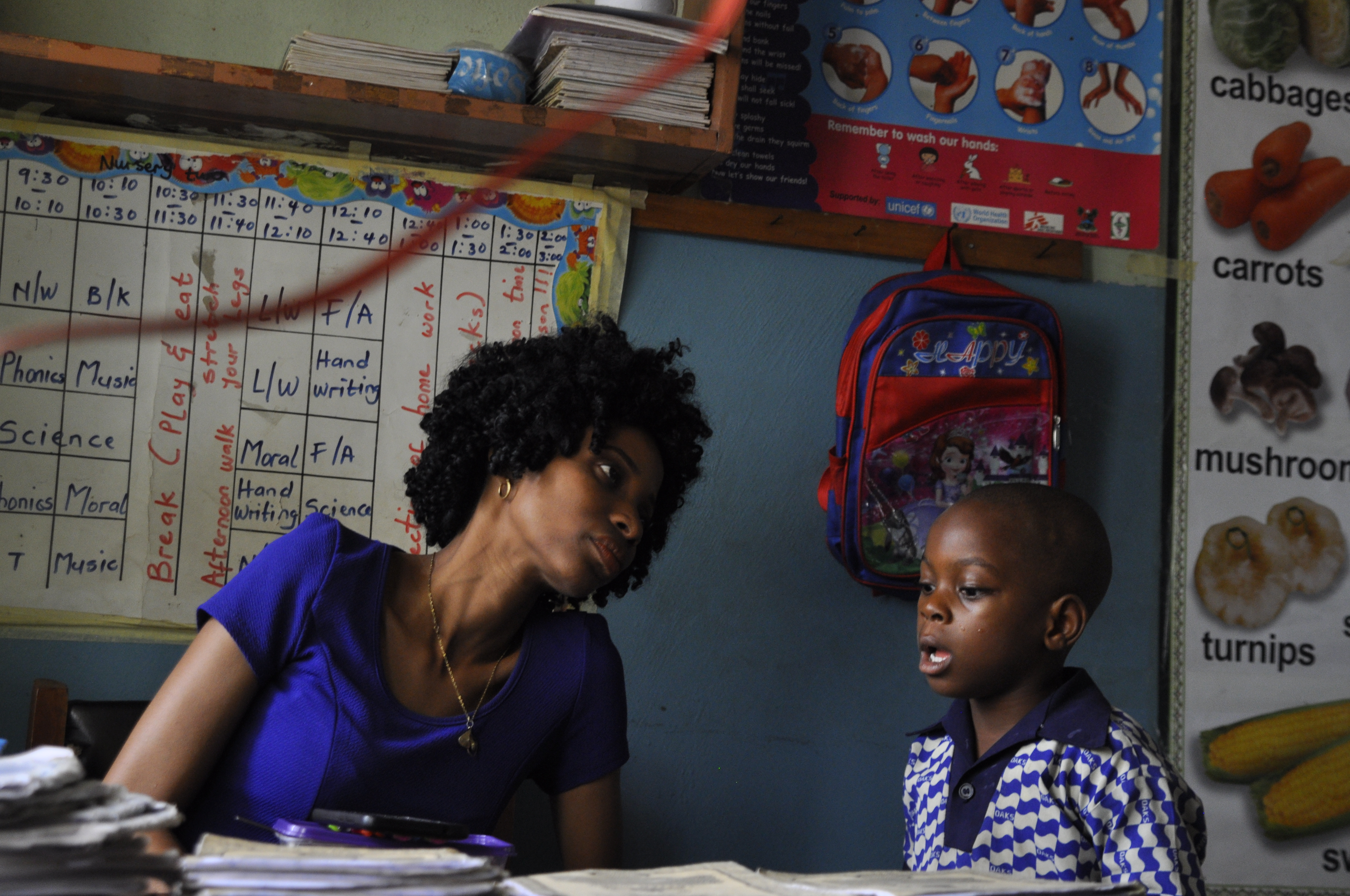 This is an image of "African people at work" from Nigeria